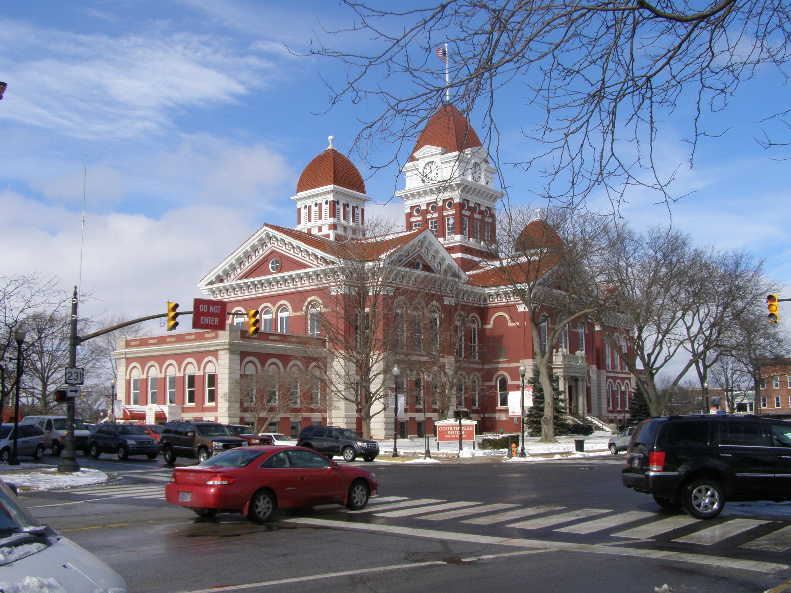 East view of the Lake County Courthouse, Crown Point, Indiana.